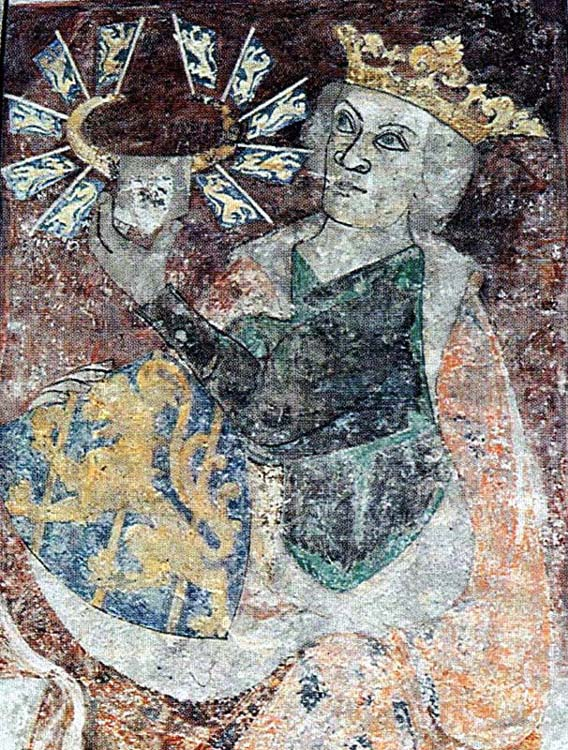 King Birger of Sweden. Limestone painting ca. 1320 from the church of Ringsted, Denmark